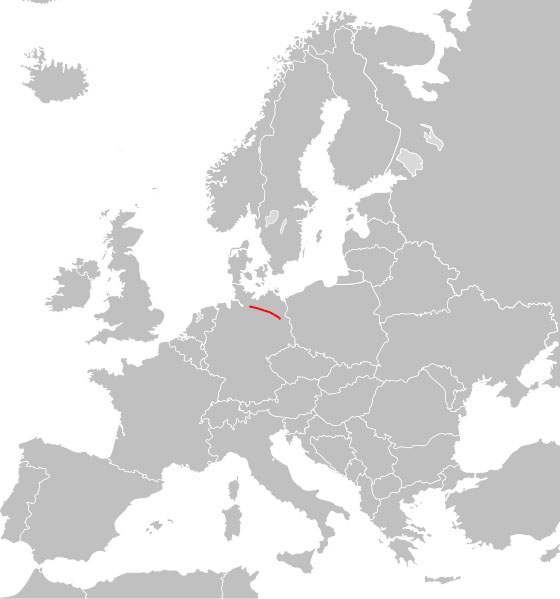 The European route 26